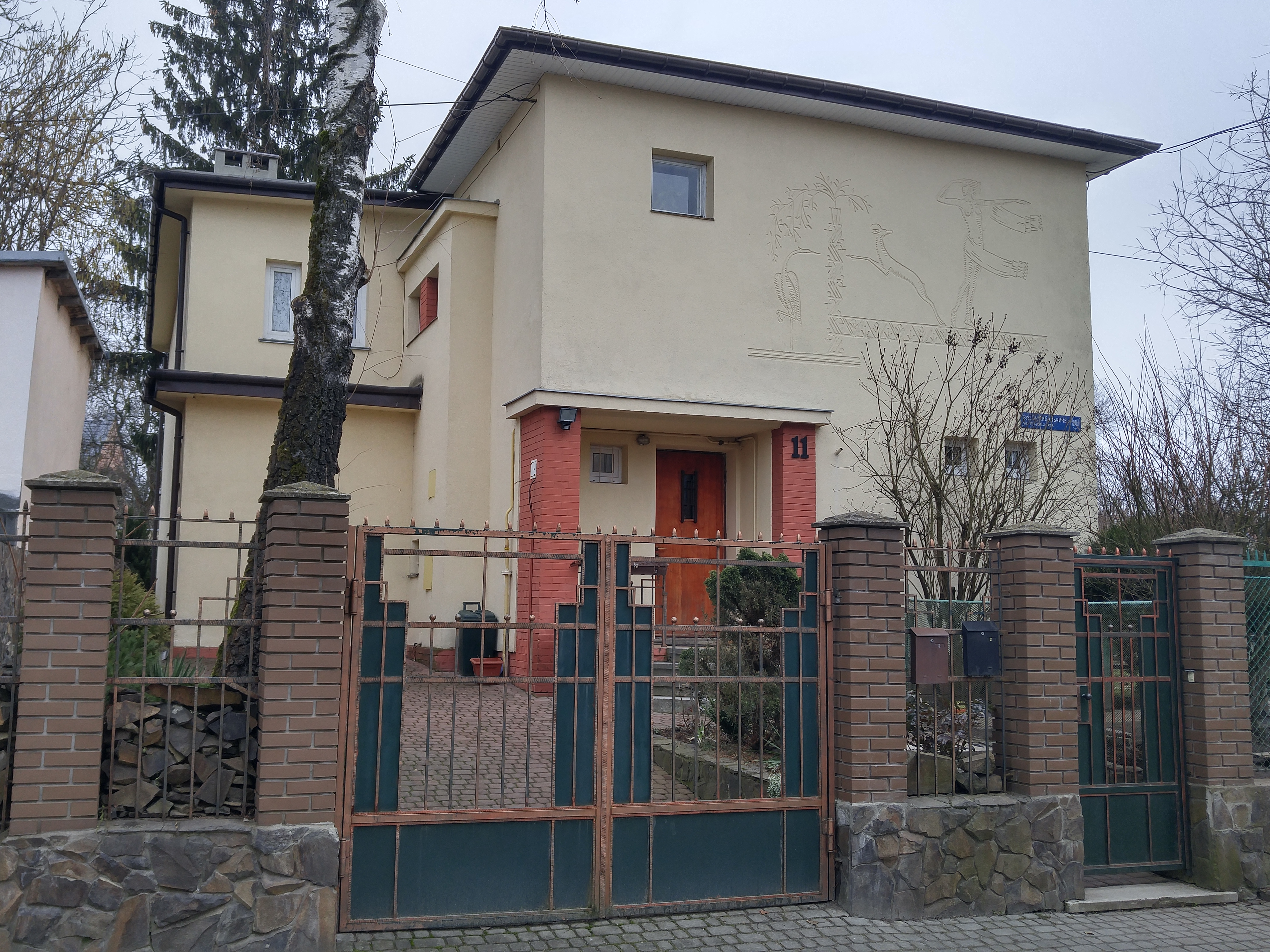 "Girl with a towel" Ukraine, Lviv, New Lviv. Architect T.Vrubel, 1932